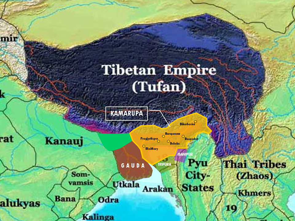 This is extent of Kamarupa kingdom in Assam in the 7th-8th centuries with important cities in that period of time. The map is created based on historical data from reliable books and also on the basis of the archaeological discoveries in the region.